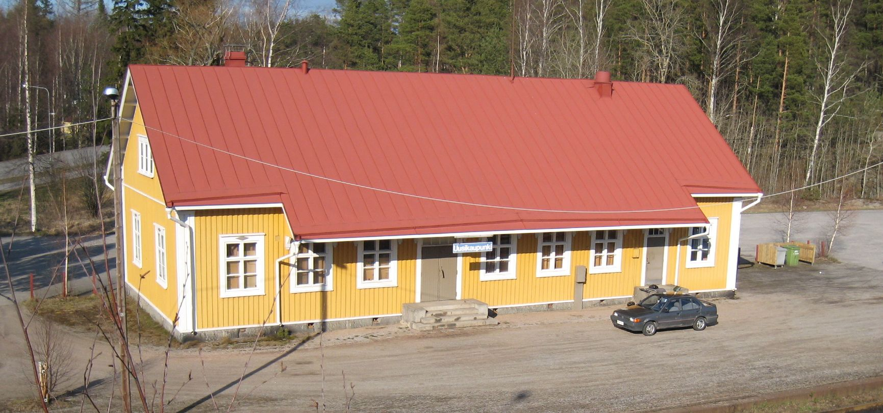 Uusikaupunki railway station in Uusikaupunki, Finland